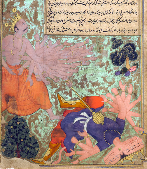 "Ramayana of Valmiki (The Freer Ramayana), Vol. 2, folio 301; recto: Arjuna fells Ravana with his mace and advances to capture him with his thousand arms"